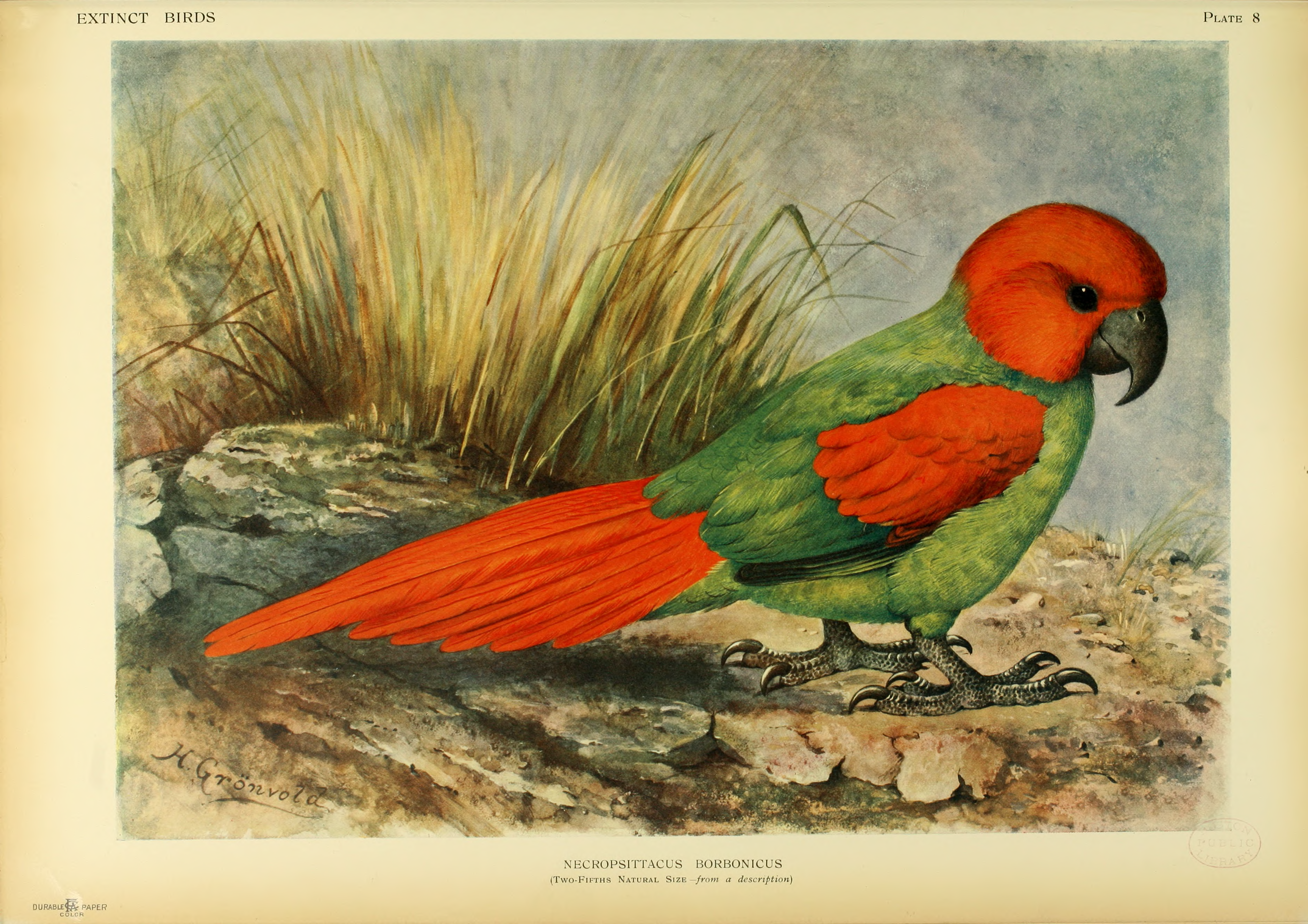 The Réunion Red-and-green Parakeet or Réunion Parrot (Necropsittacus borbonicus) is a hypothetical extinct species of parrot based on descriptions of birds from the Mascarene island of Réunion. The image is entirely conjectural and obviously not accurate insofar as it shows a bird with the large-headed, massive-billed shape of the Rodrigues Parrot combined with the color pattern described by Dubois.